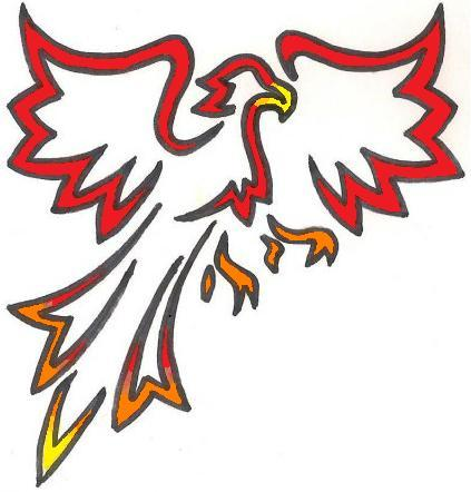 Phoenix